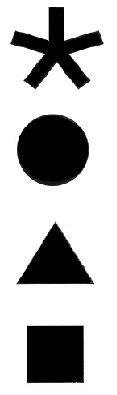 Images depicting roof signs, similar to those drawn in Home Office publication 43/04 "Thermal Roof Markings for Police Vehicles'.